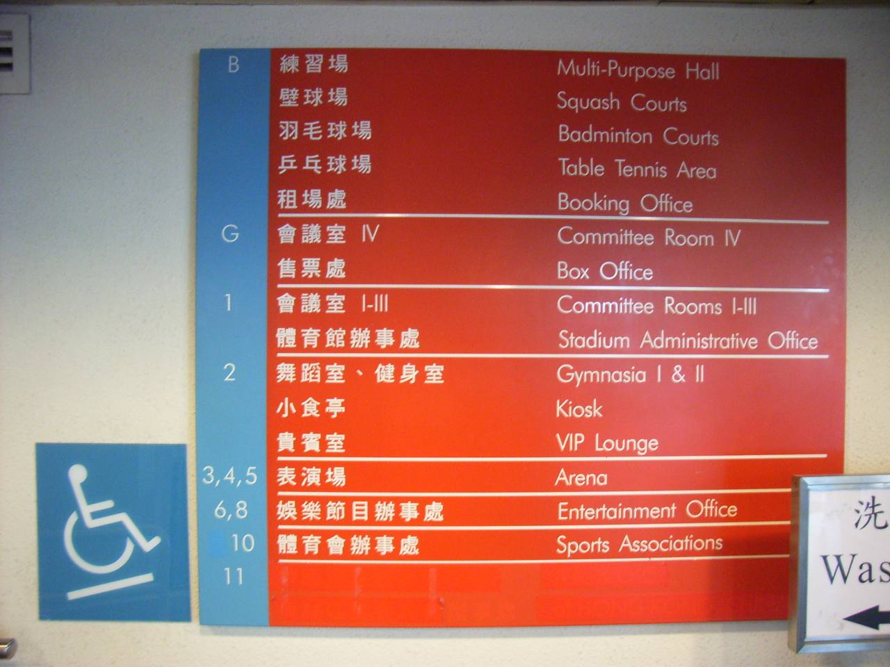 Around the Oi Kwan Road, Wan Chai, Hong Kong Author:Wenzi MHTI